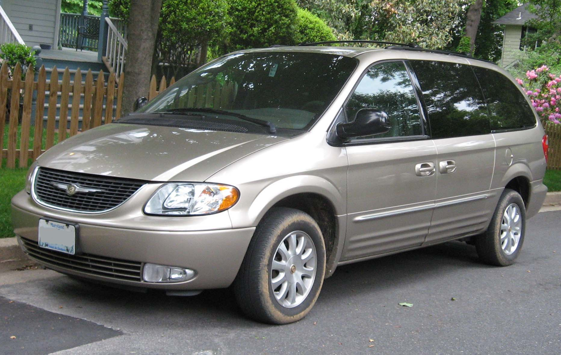 2001-2004 Chrysler Town and Country photographed in USA.